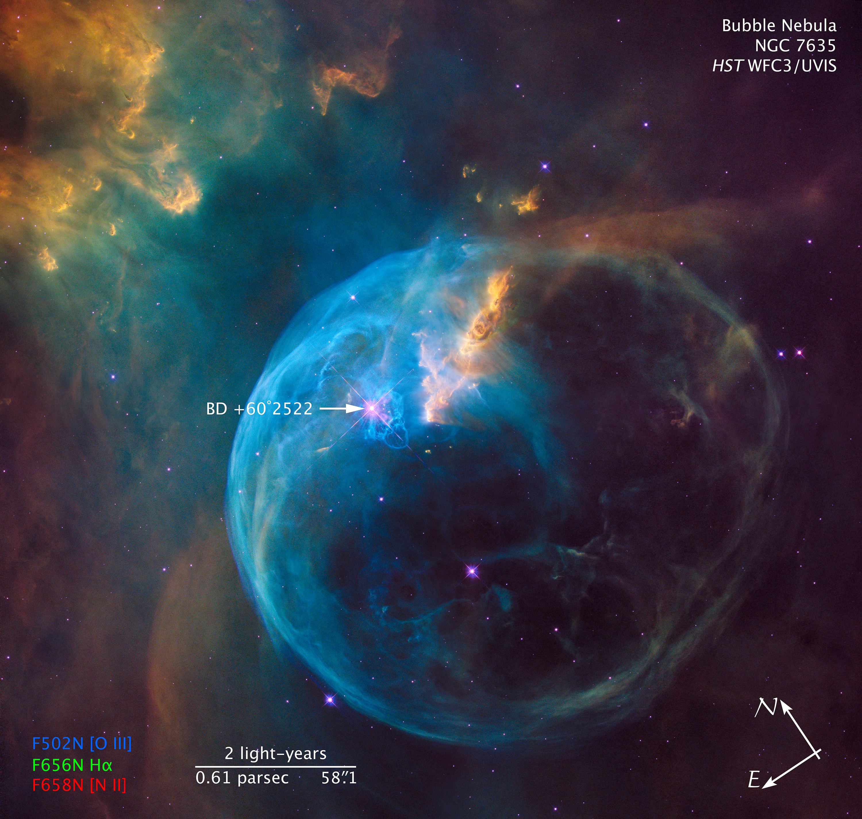 The Bubble Nebula (NGC 7635), marked with a compass and scale.